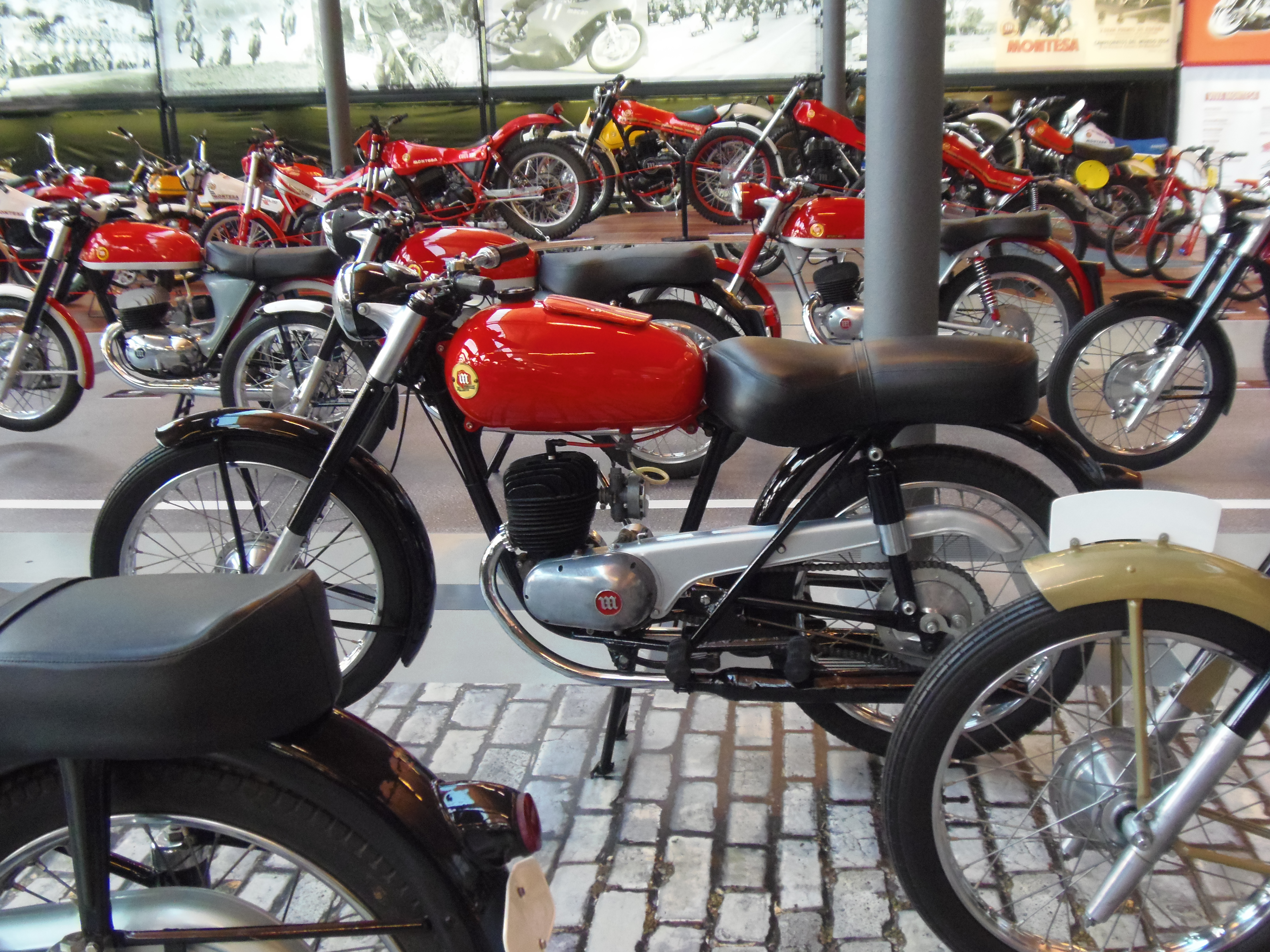 Montesa 150, 1959